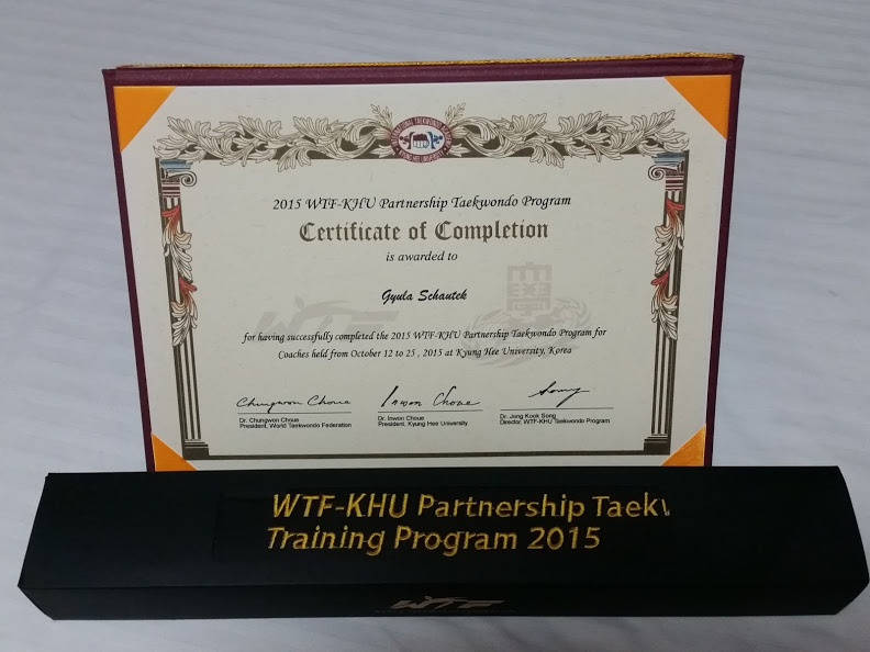 Gyula Schautek's coaching diploma from Seoul, South Korea